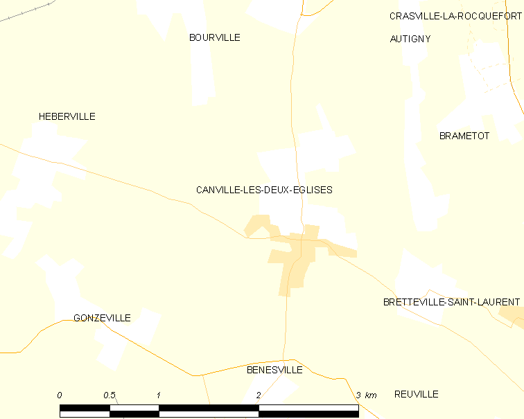 Map of French municipality Canville-les-Deux-Églises